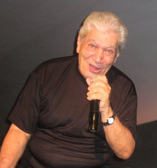 Adalbero Santiago